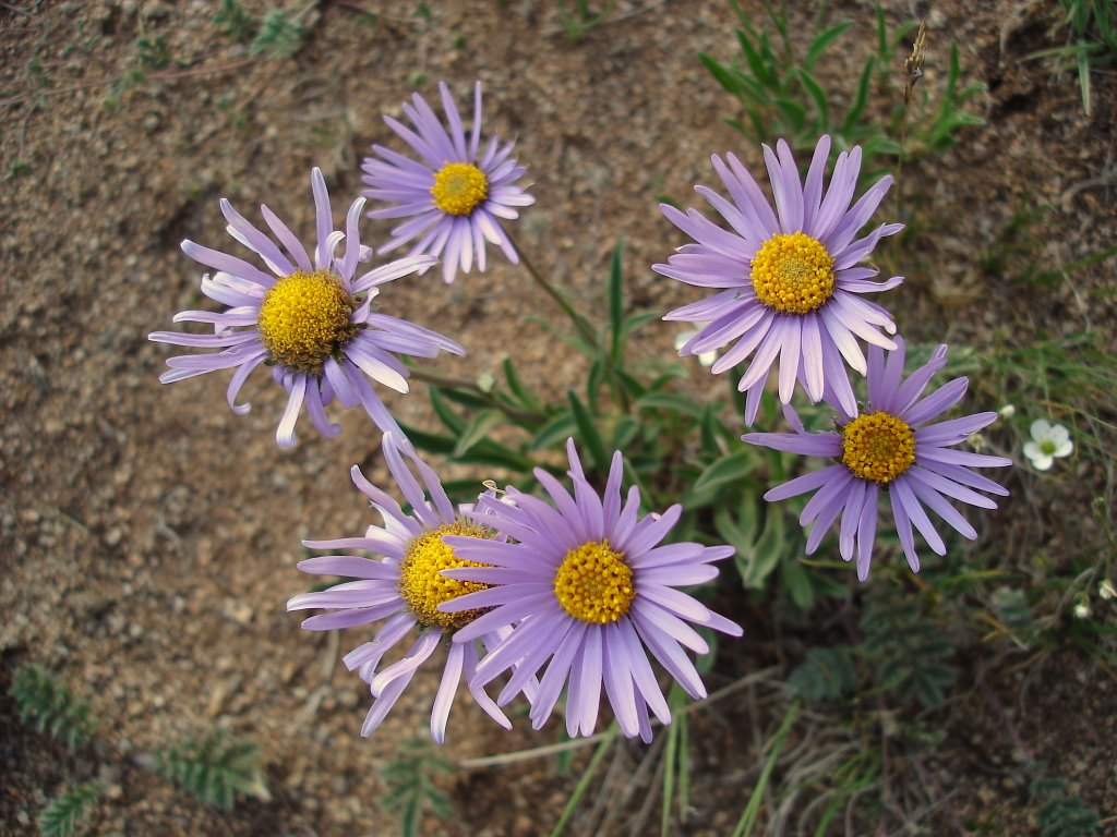 Heteropappus hispidus from Khangai Mountains, Mongolia.